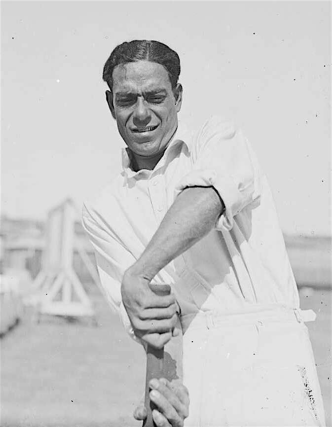 West Indian cricketer Tommy Scott demonstrating his batting technique during his team's 1930–31 tour of Australia.